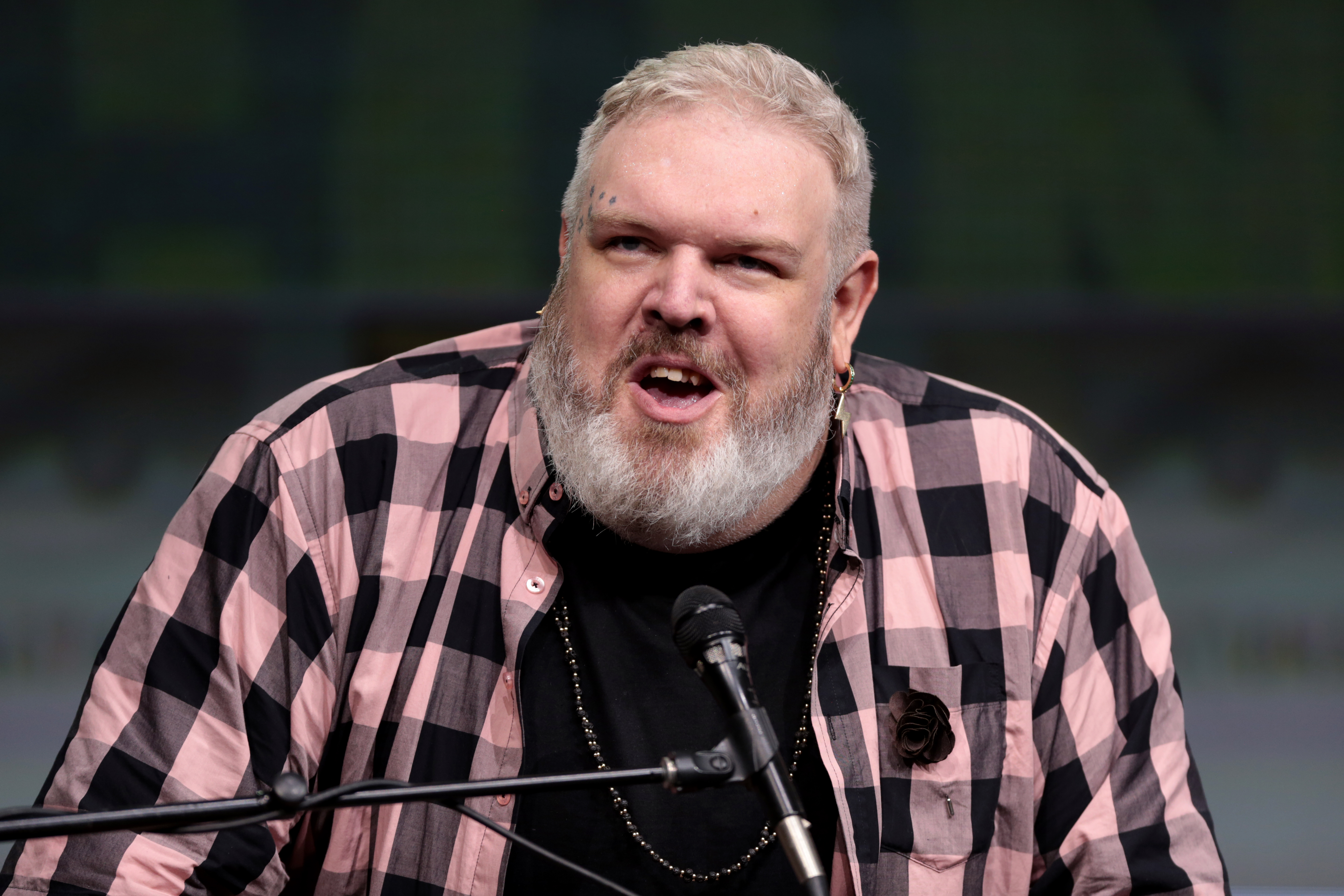 Kristian Nairn speaking at the 2017 San Diego Comic Con International, for "Game of Thrones", at the San Diego Convention Center in San Diego, California.